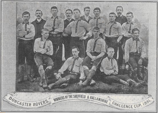 Picture of the 1891 Sheffield and Hallamshire Cup Winning Doncaster Rovers football team.